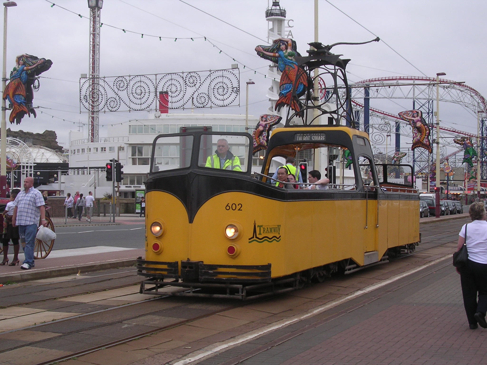 Blackpool tram 602